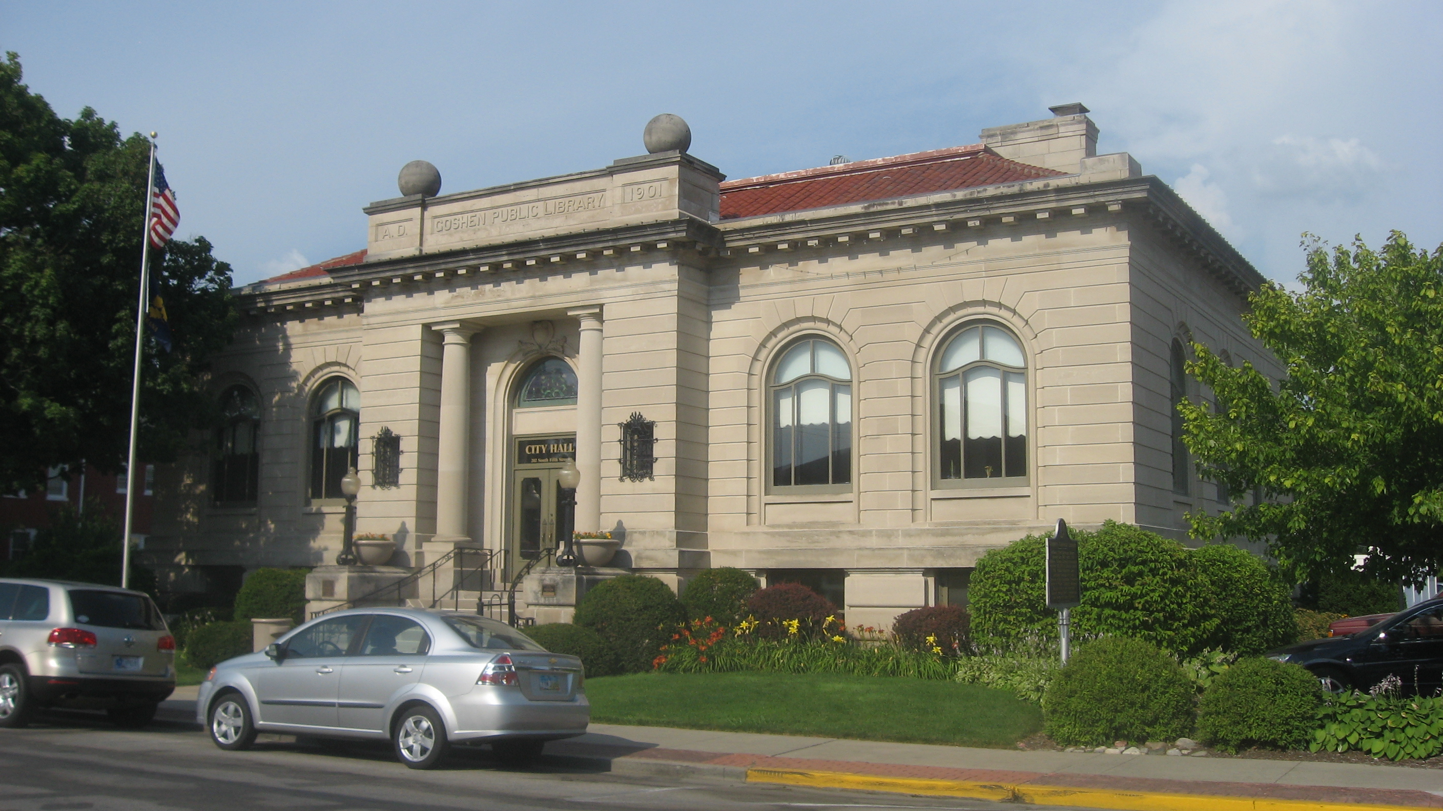 Front and southern side of the Goshen Carnegie Public Library, located at 202 N. Fifth Street in Goshen, Indiana, United States. Built in 1901 and since converted into the city hall, it is listed on the National Register of Historic Places, and it is part of a Register-listed historic district, the Goshen Historic District.